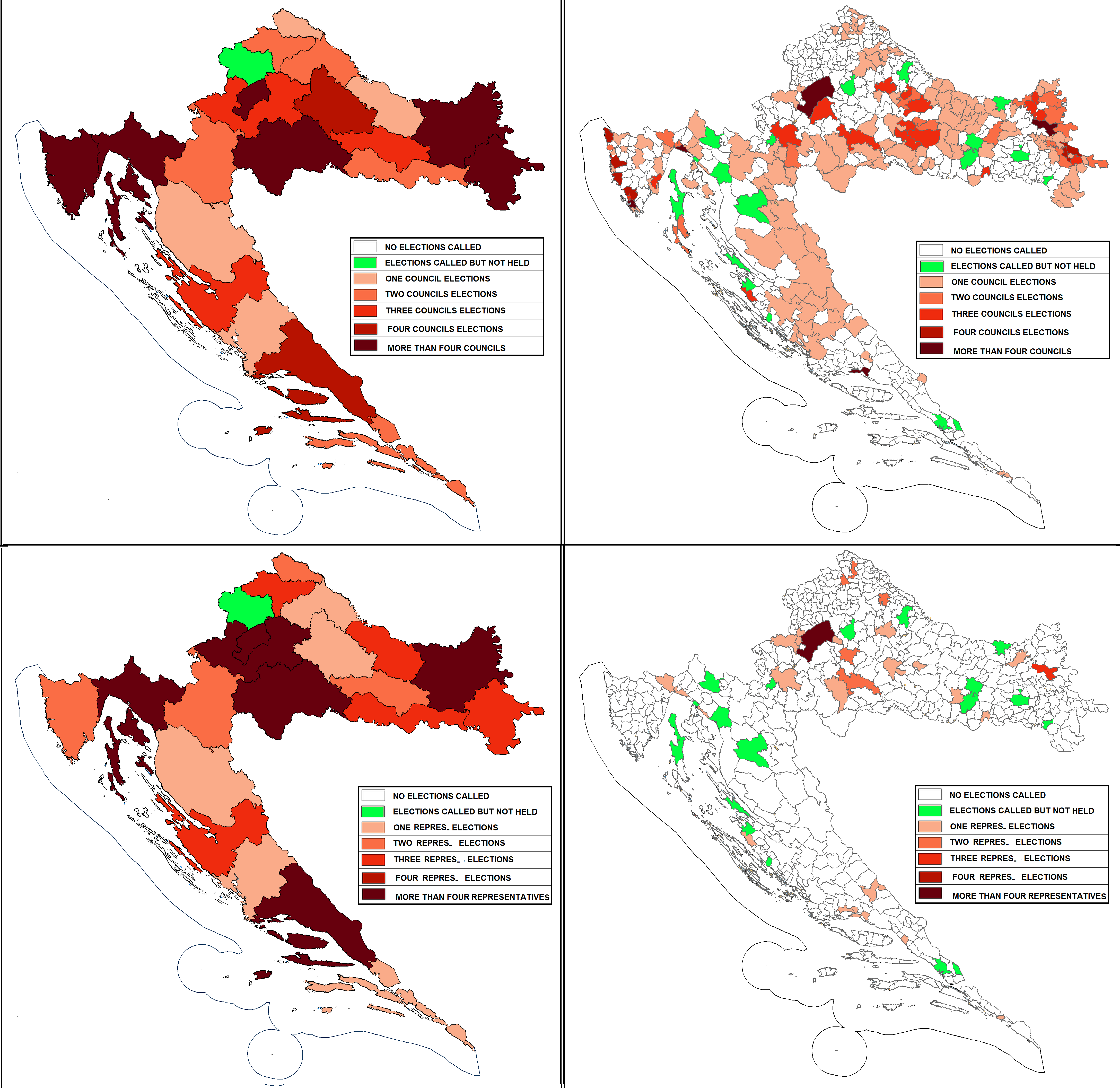 2019 Croatian national minorities councils and representatives elections in Croatia based on The State Election Commission data on May 5, 2019 on following two links ( and Among units in which elections were not held included are only counties and cities. Data for 90 municipalities in which elections were called but not held was not publicly available. To create this map, other two maps were used; File:Statistical-regions-of-Croatia.PNG and File:Croatia map municipalities.png